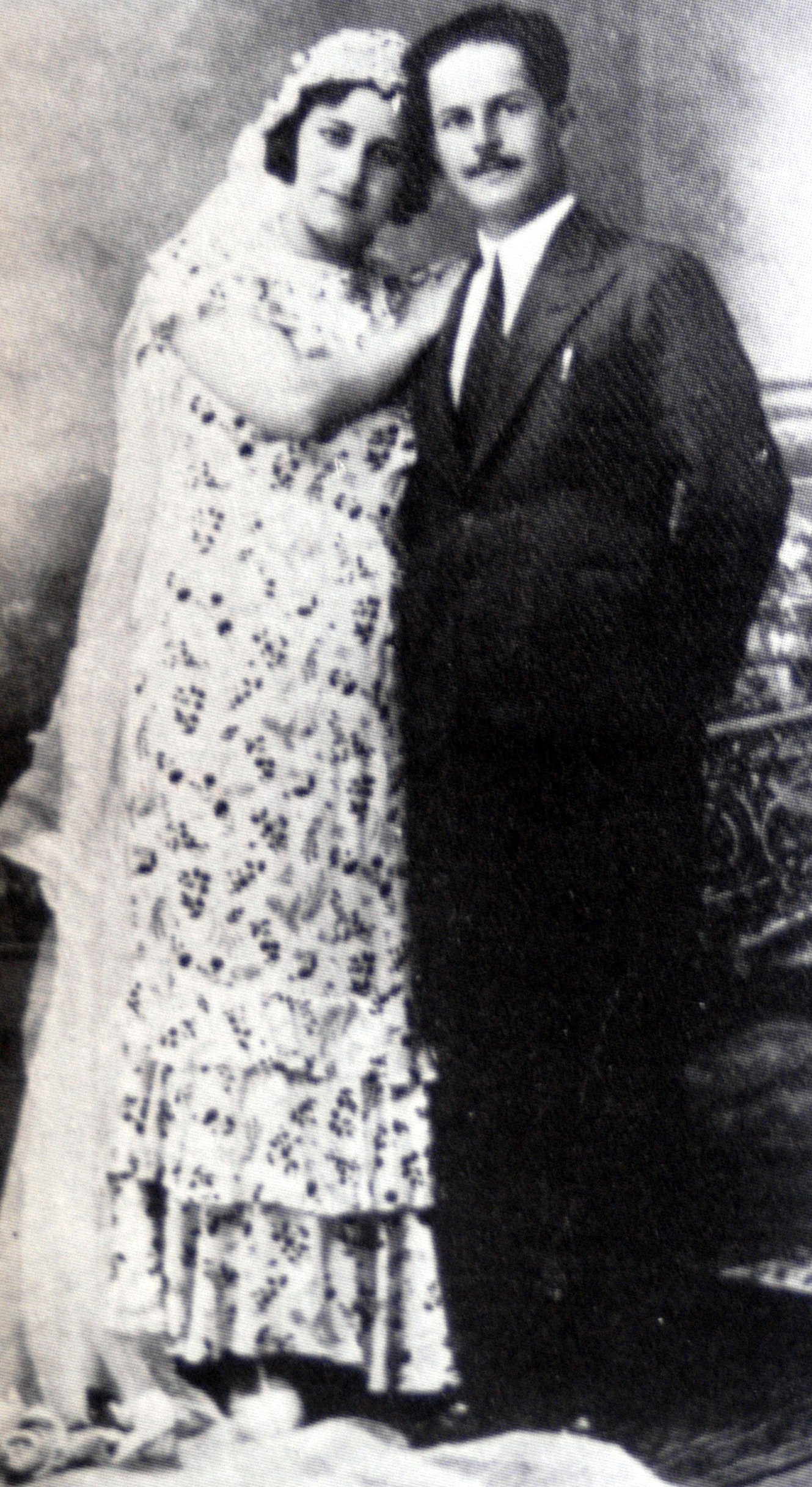 Abdul Khader Husseini and his bride. 1934